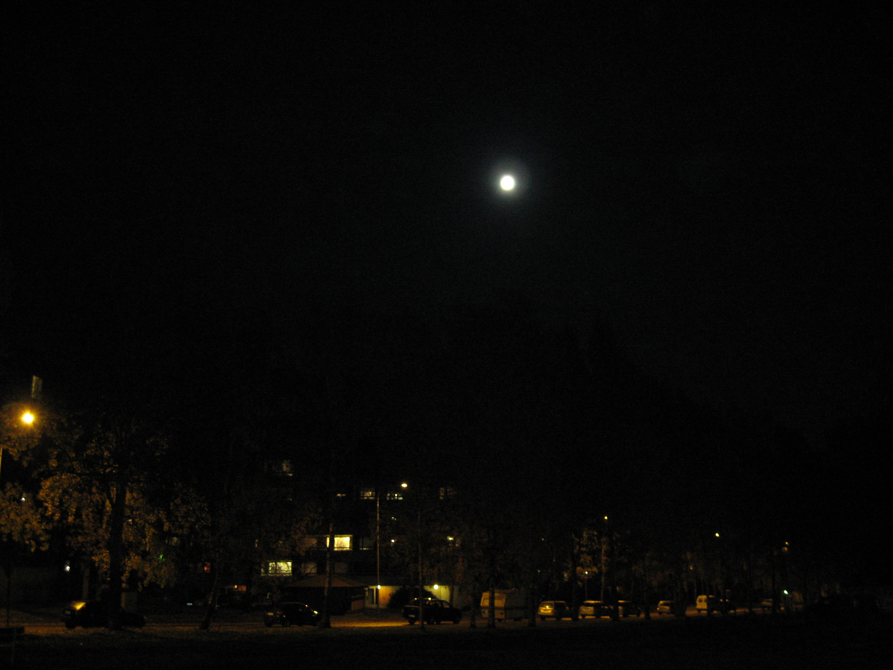 Full moon in October 14 2008